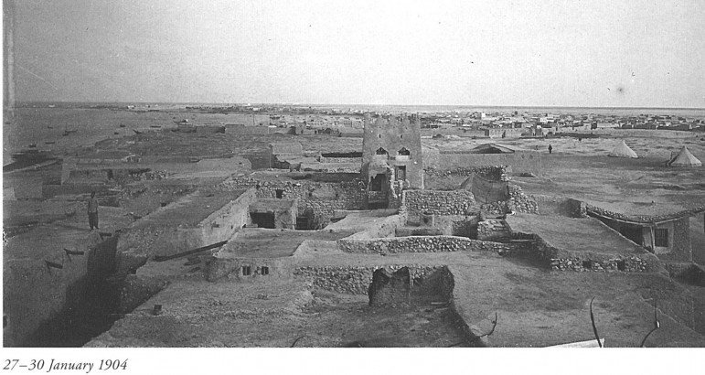 Old city of Doha in Qatar by Hermann Burchardt, January 1904.